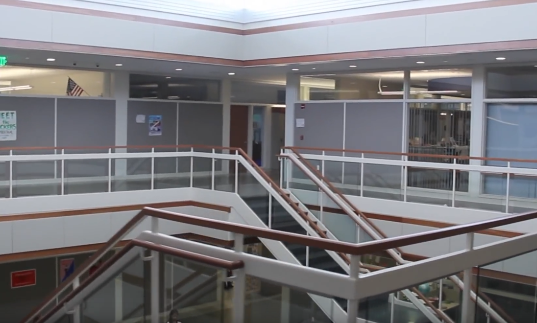 sembbalc